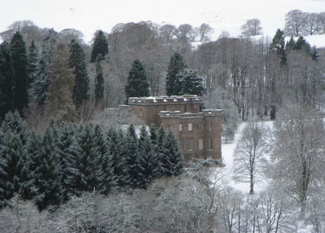 Monzie Castle Monzie Castle from Monzie Moor Crieff